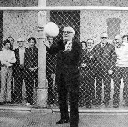 Former Boca Juniors goalkeeper, Américo Tesoriere, in a football field.